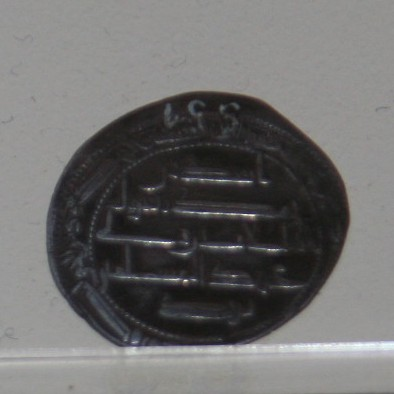 Silver dirhams of Shirvanshah Asad bin Yazid